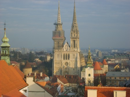 Zagreb cathedral